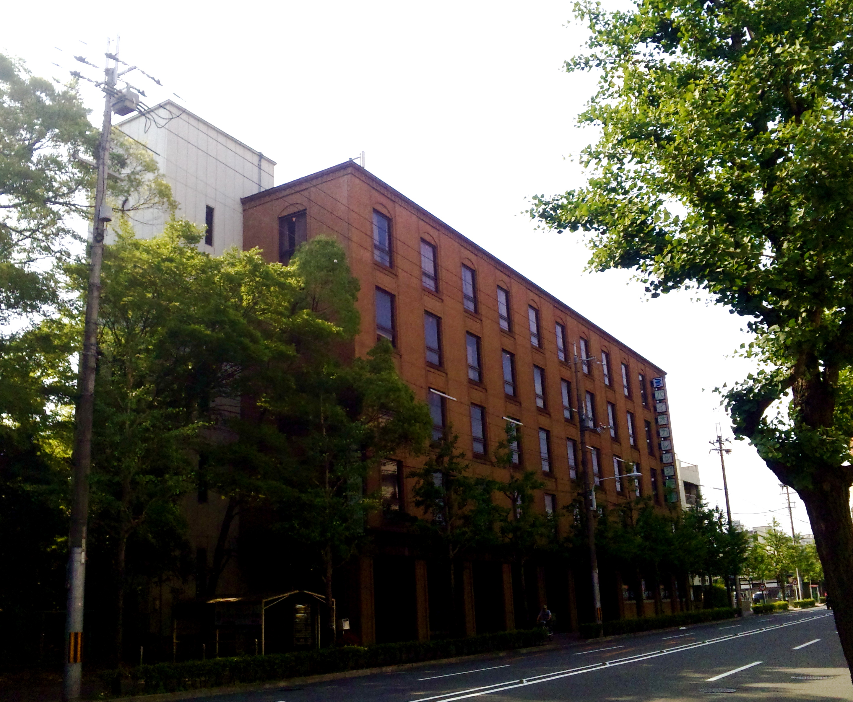 This is the cite where a university building called Ritsumei-kaikan used to stand until the early 1980s. The cite was sold to a famous preparatory school in Kyoto called Kansai Bunre Gakuin and the building shown in the photo was rebuilt.